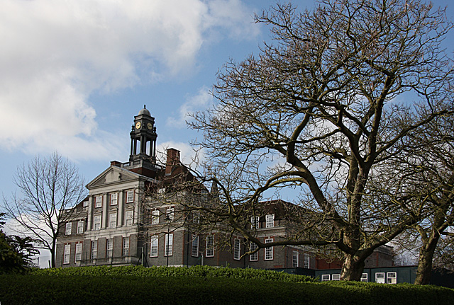 Henrietta Barnett School Grammar school for girls located on Central Square, Hampstead Garden Suburb, viewed from Northway Circus.